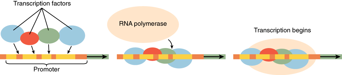 Version 8.25 from the Textbook OpenStax Anatomy and Physiology Published May 18, 2016